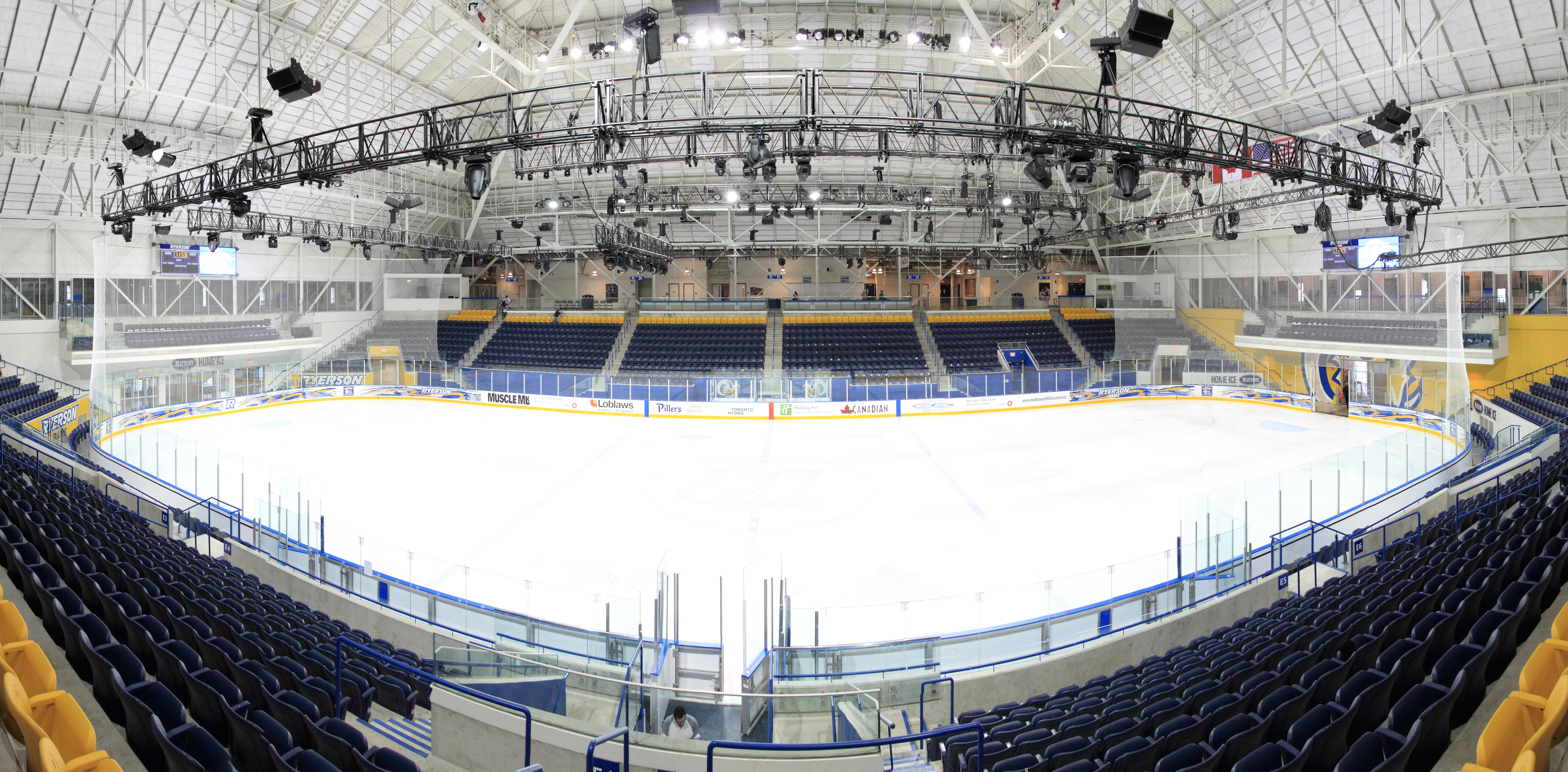 This is a panoramic view of the NHL-sized ice rink located at the former Maple Leaf Gardens in Toronto, Canada